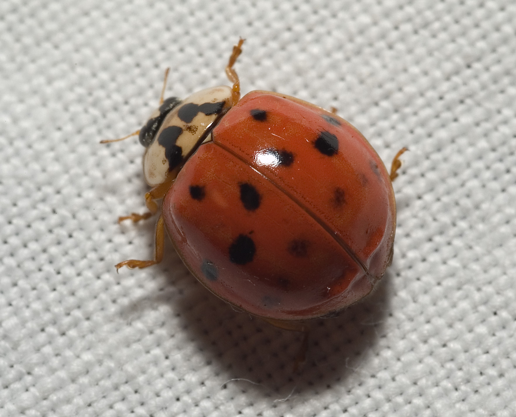 Please report references to kulacgmx.at.